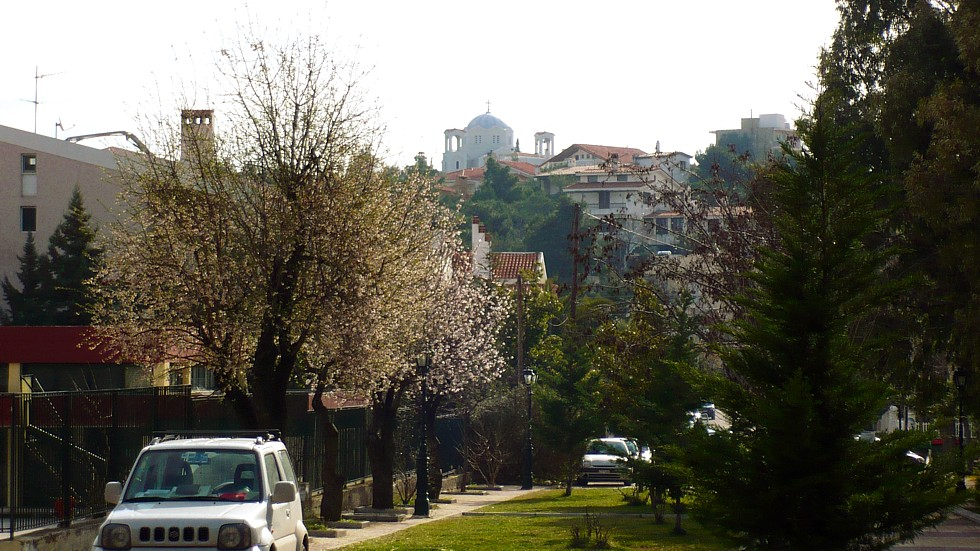 The picture depicts the settlement of Kantza.